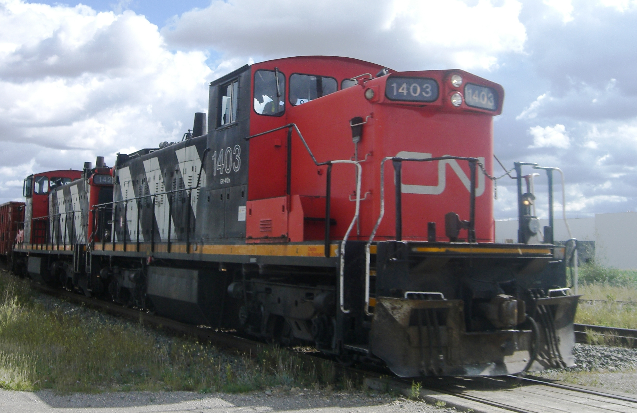 Canadian National freight train CN_7331